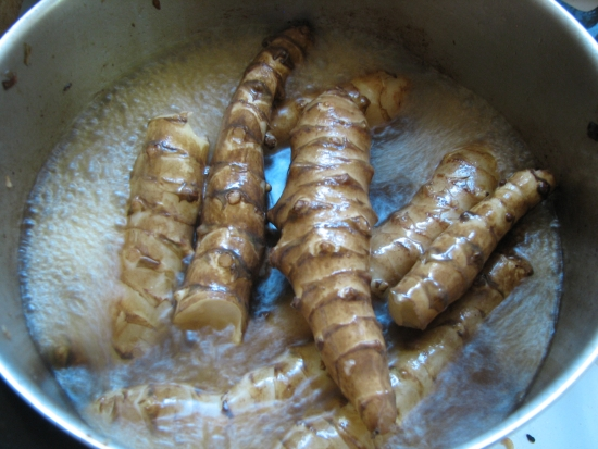 Photo by Gila Brand. This is my own work. Jerusalem artichokes (cooking in a pot in Jerusalem)